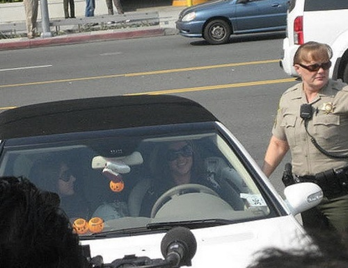 Britney Spears driving from court on October 26, 2007